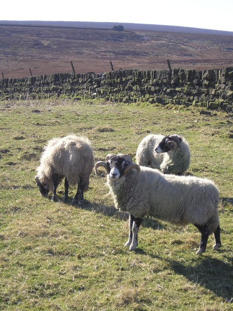 Sheep off Buckstone Lane near to Sutton-in-Craven, North Yorkshire, Great Britain. The Hitching Stone can be seen on the hillside